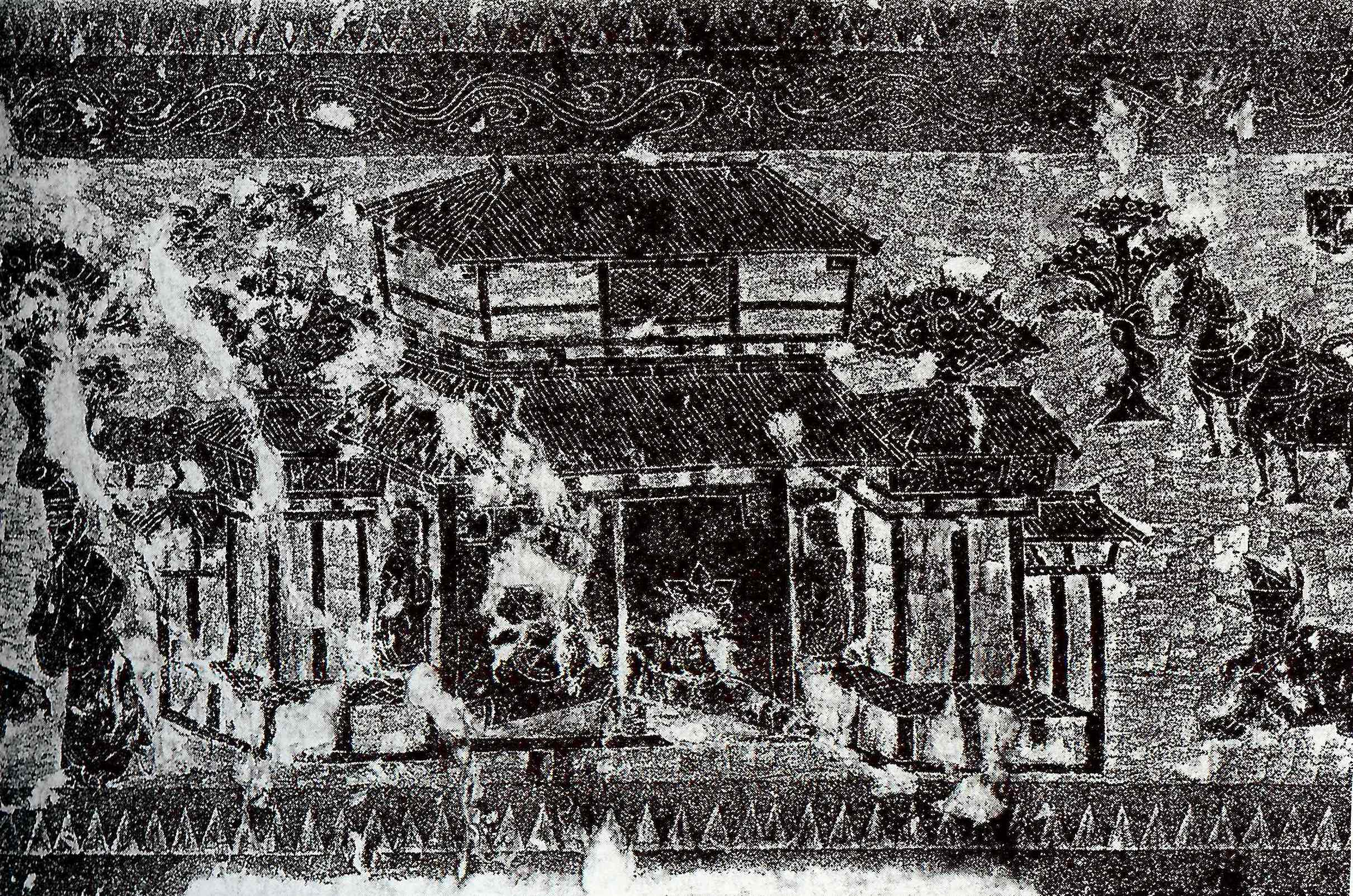 A rubbing of a Chinese Han Dynasty (202 BC – 220 AD) pictorial stone (i.e. the Yinan stone carving of Shandong province, China) showing an ancestral worship hall (citang 祠堂) with closed doors, a person outside making a sacrificial offering to his ancestors, and horses and trees in the background.